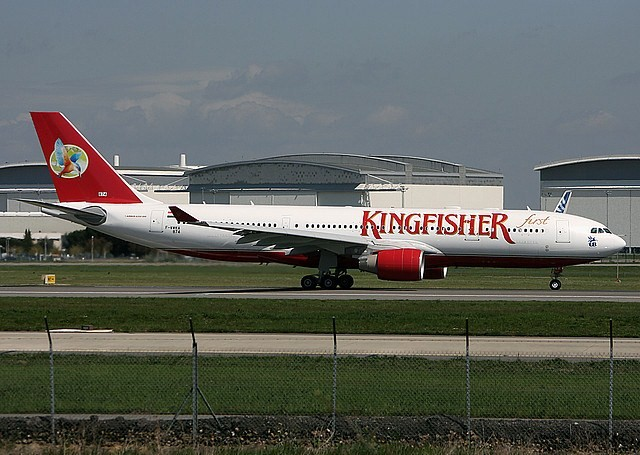 Kingfisher airlines Airbus-A330